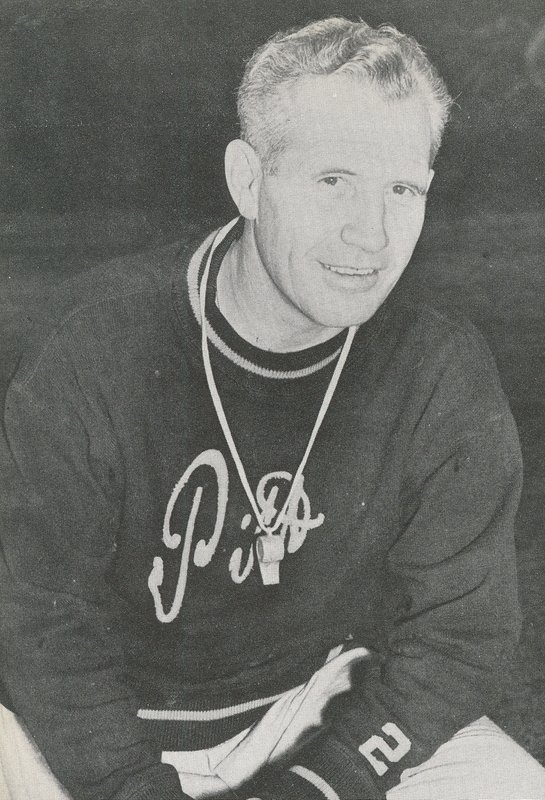 Pitt Panthers football coach Len Casanova